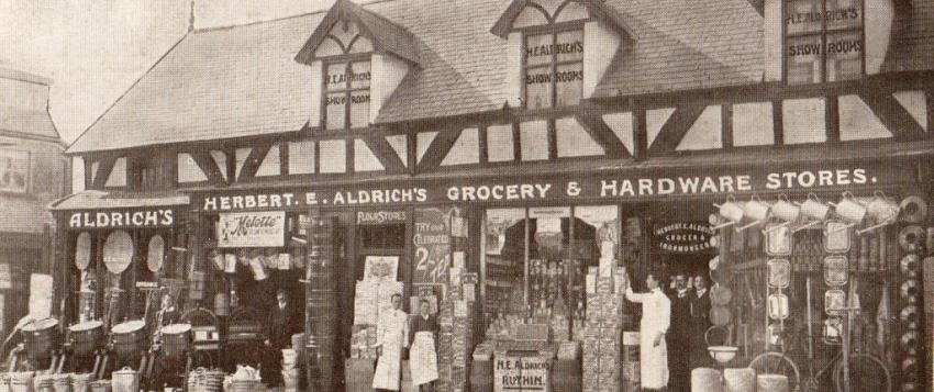 Square12 Nat West